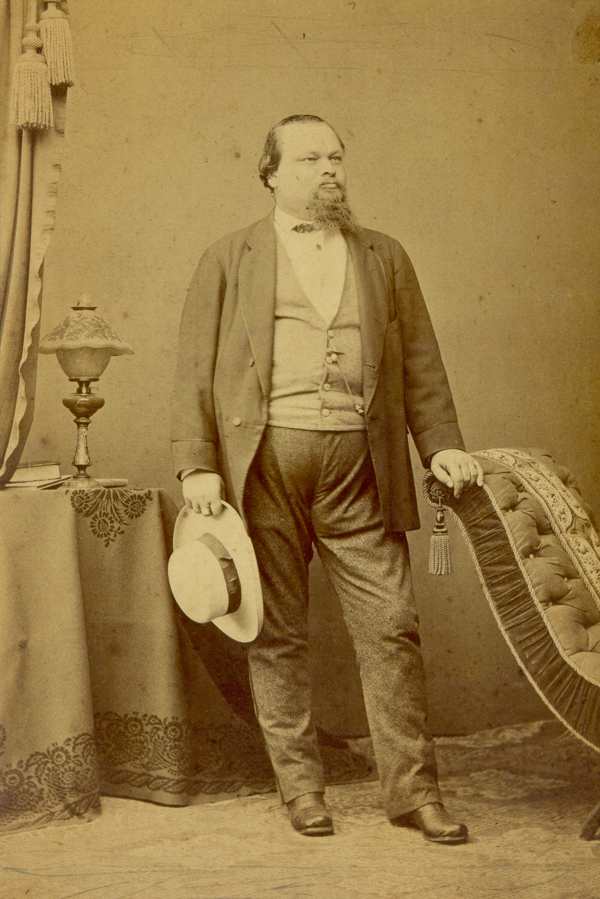 Valentin Zarnik (1837-1888), slovene writer and politician.